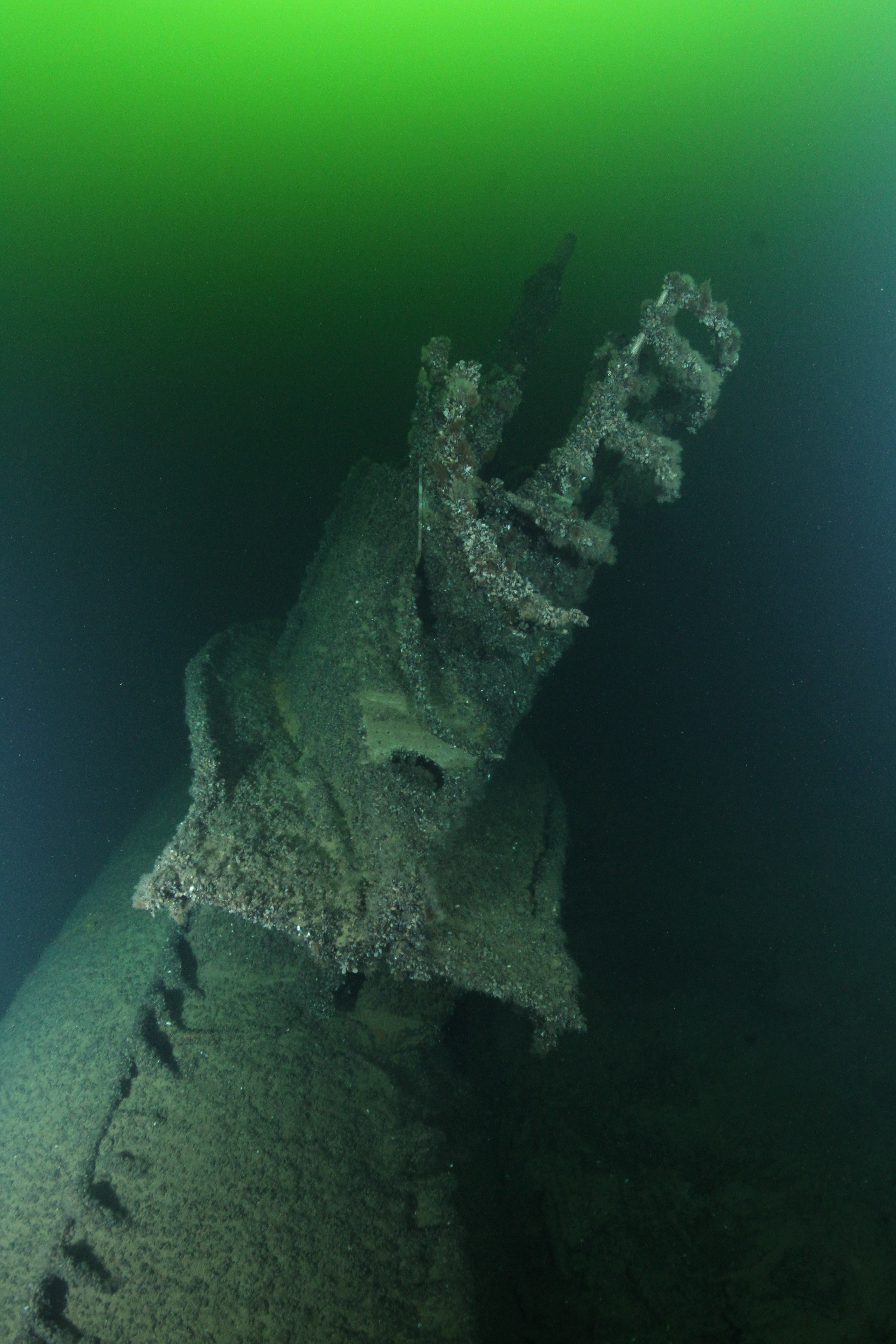 Wreck of russian imperial submarine "Akula". View of sail.